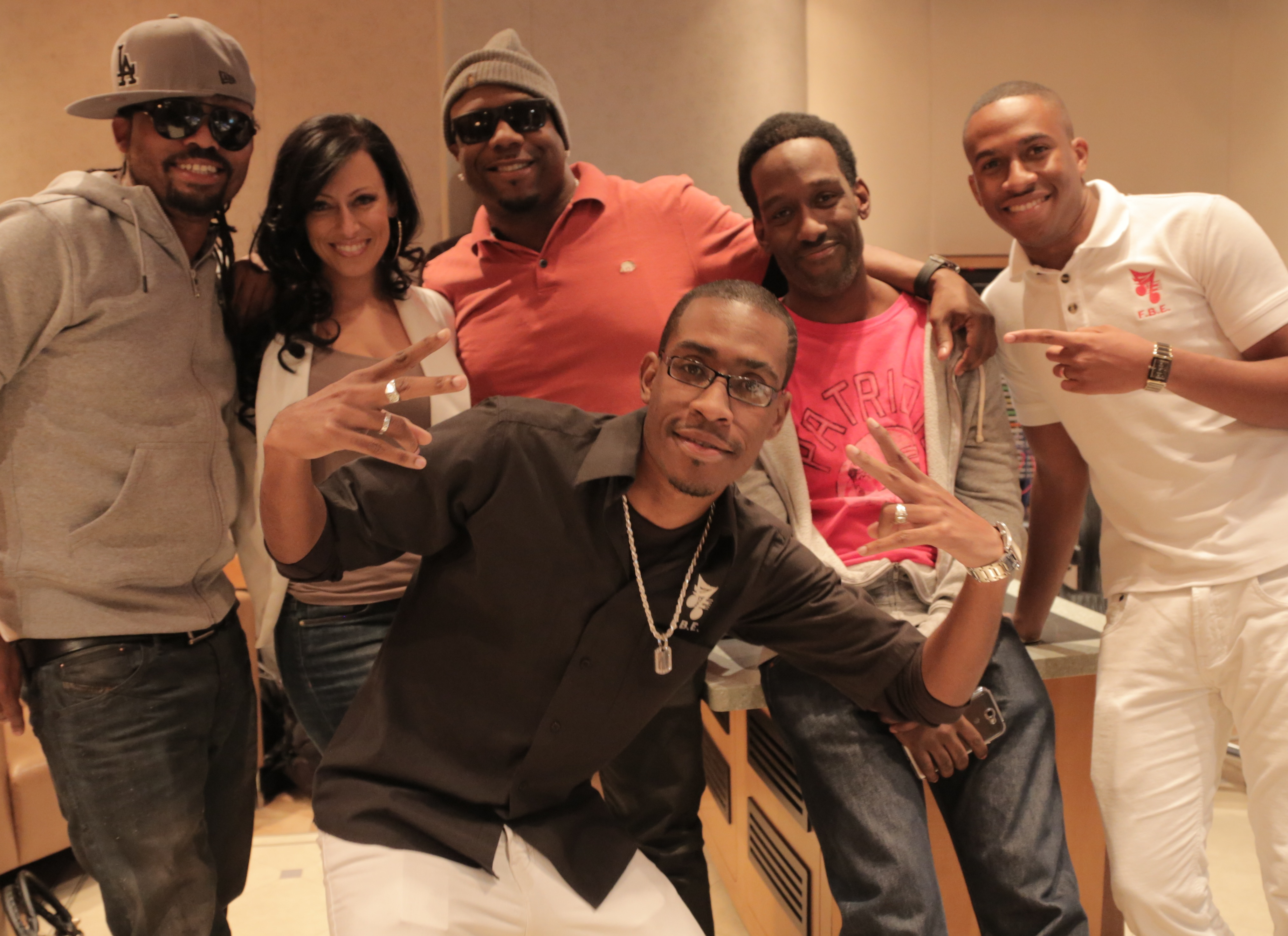 FBE in studio with Boyz II Men